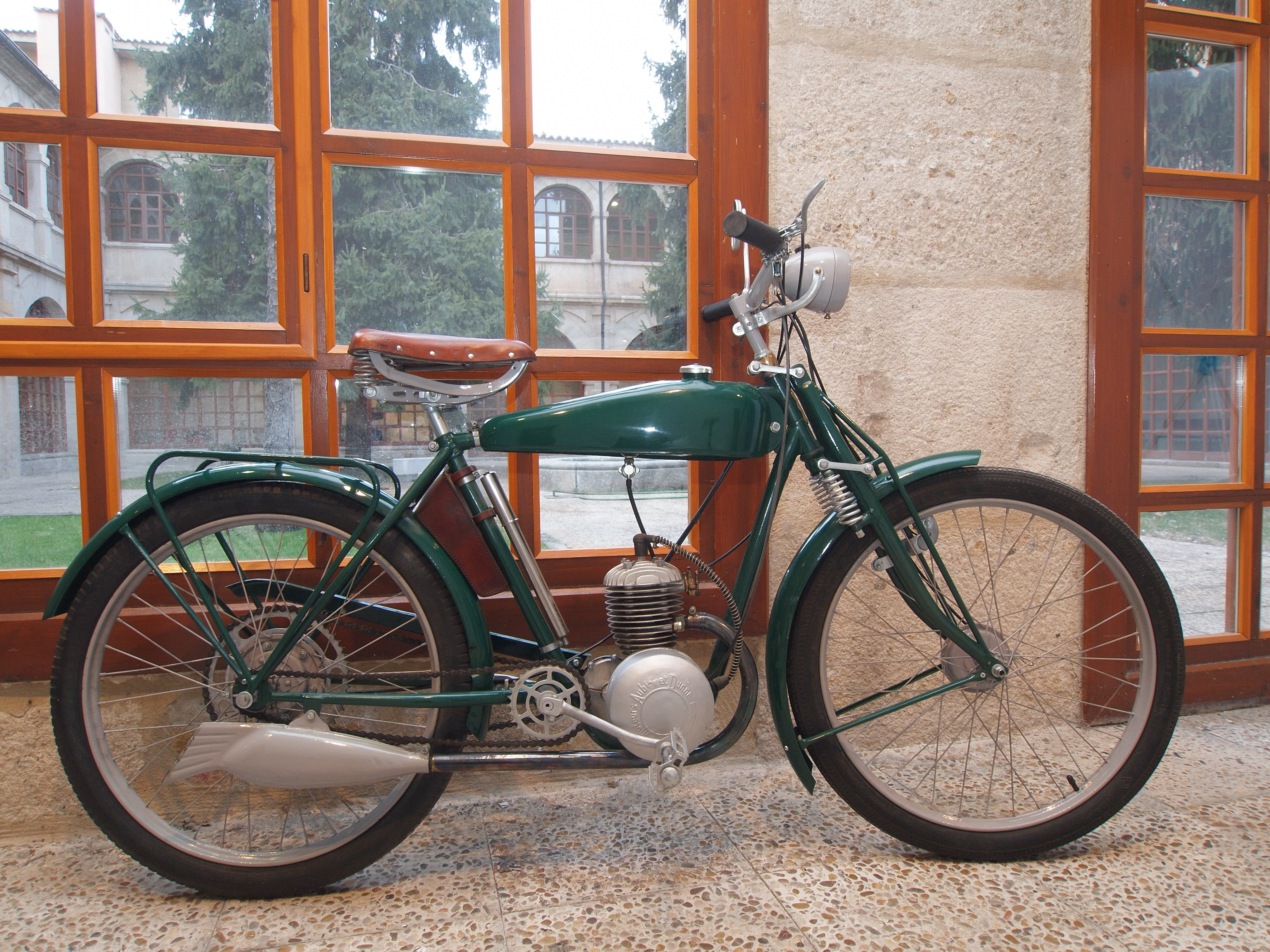 Brisia motorcycle (1940 decade); probably artisan manufactured; engine Aubier et Dunne 50cc two stroke. At exhibition in the II Show "Toda una Vida en Moto" of the Asociación Motociclista Zamorana (Zamora, Spain, February 2012)